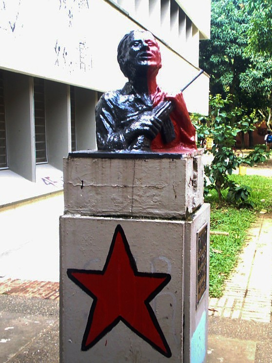 Bust of Camilo Torres